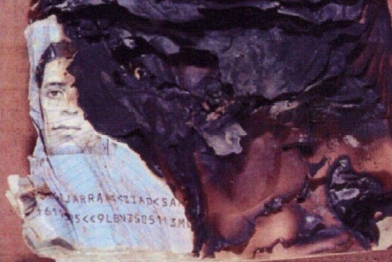 Ziad Jarrah charred passport photo found among the wreckage of United 93.